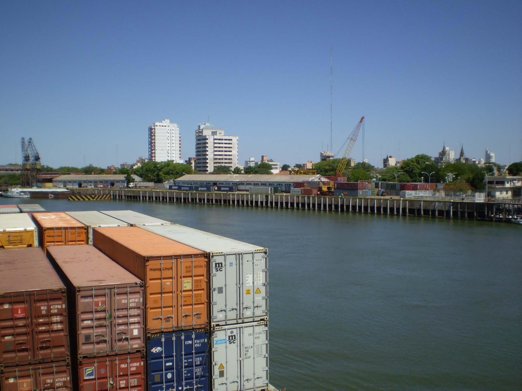 Port of Corrientes view from Parana River (Argentina)